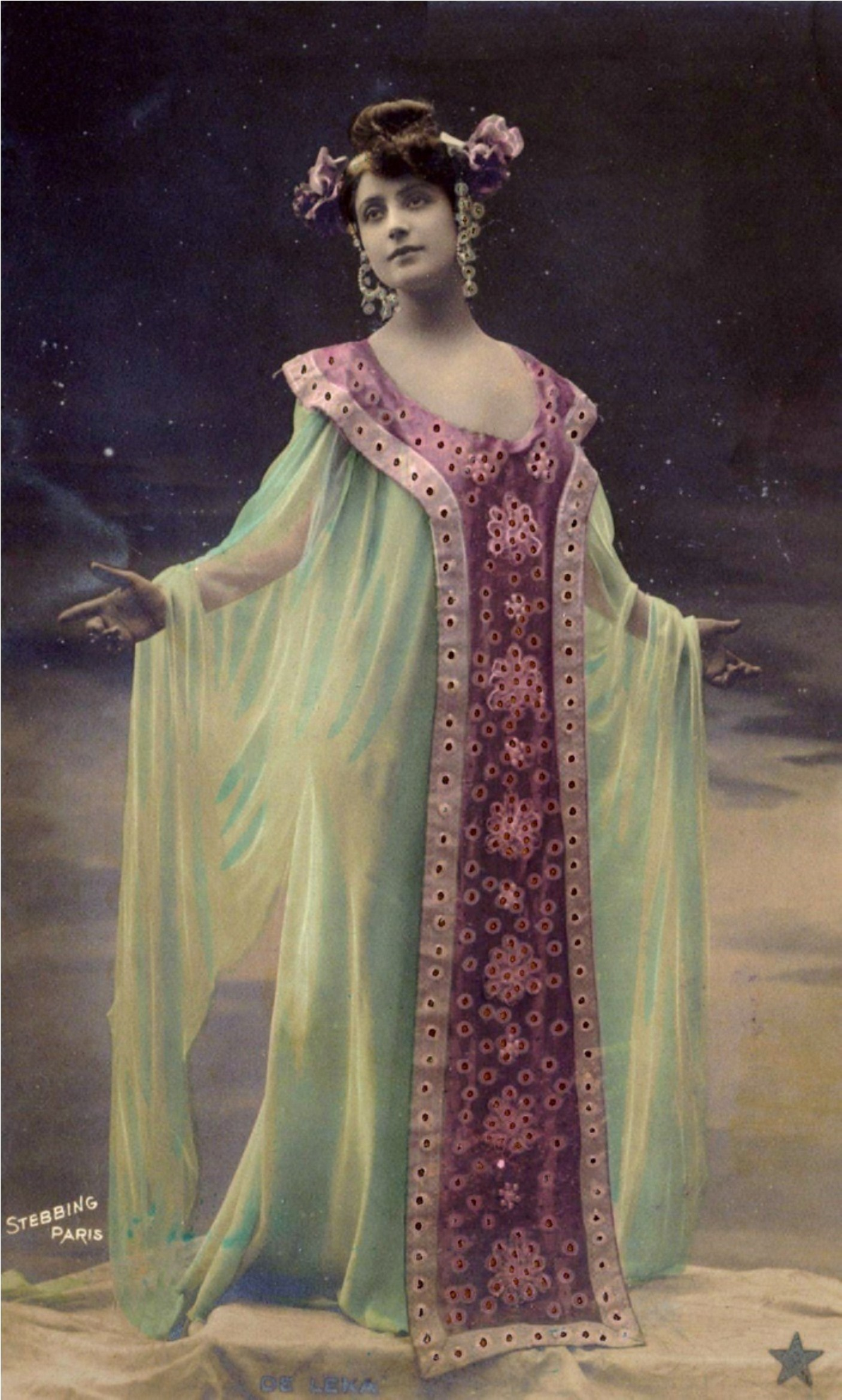 Xavière de Leka, pseudonym of Xavière Colonna de Leca, was a French actress born in Ajaccio (Corsica) on 7 April 1881 and died in Paris (8th arrondissement) on 5 April 1914, at the age of 32 years old. Xavière de Leka was a Boulevard theatre actress and performer of the Moulin Rouge. She plays mainly at the Théâtre des Variétés and the Théâtre des Capucines in Paris during the Belle Époque.